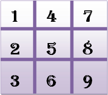 789numerologiya